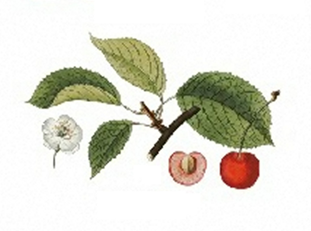 Griotte de Kleparow — illustration from Johann Kraft's Pomona Austriaca. Abhandlung von den Obstbäumen from 1791